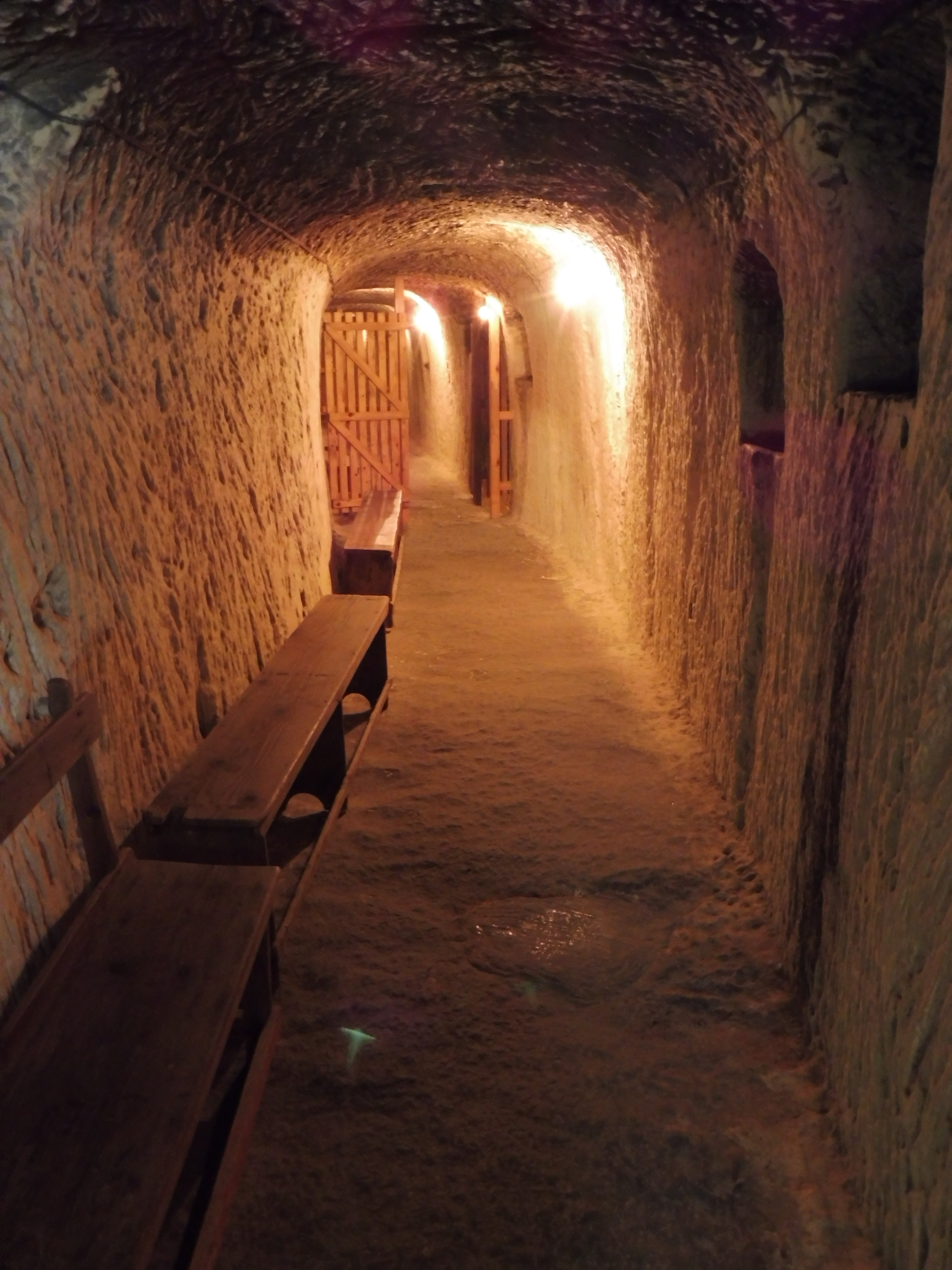 Underground WWII air-raid shelters in the rock under the "Malta at War Museum" in Vittoriosa (Birgu)